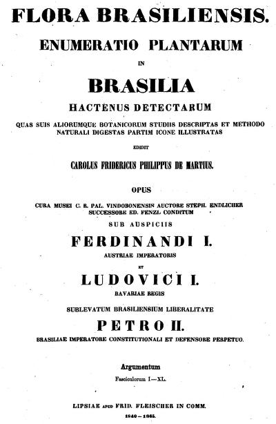 Flora Brasiliensis, title page.